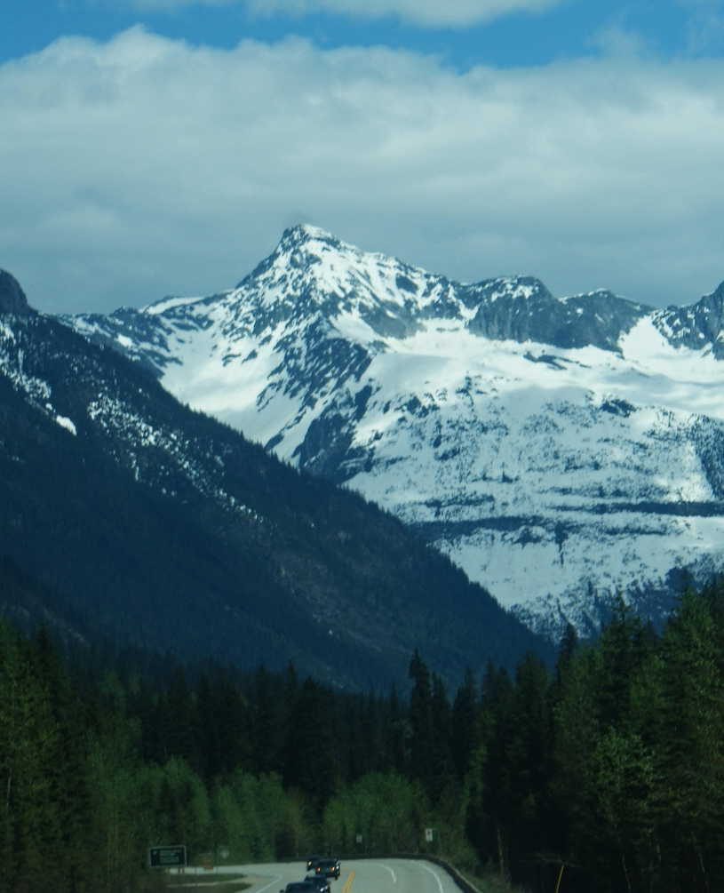 Avalanche Mountain of Sir Donald Range, Selkirk Mountains, Canada as seen from eastbound Highway 1